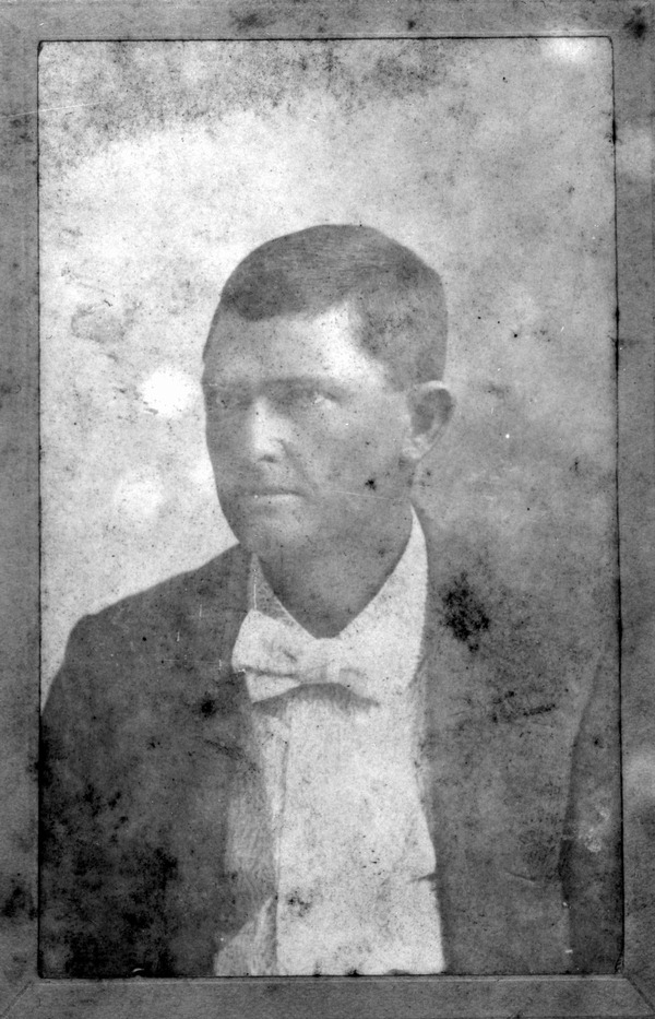 George Wynn, town marshall of Newberry, Florida